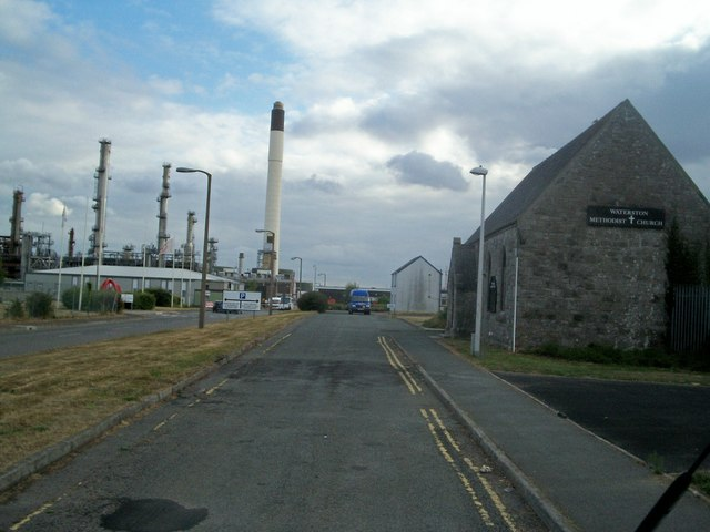 Waterston Methodist Church. Now surrounded by oil refinery.